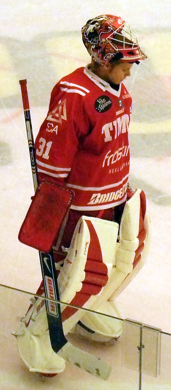 Swedish ice hockey goaltender Johan Backlund of Timrå IK during pre-game in E.ON Arena, Timrå, Sweden during the Swedish Elite League game Timrå IK-Skellefteå AIK (1-2).